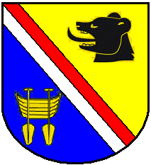 Coat of arms of Amlikon-Bissegg, Canton of Thurgau, SwitzerlandEsperanto: Blazono de Amlikon-Bissegg, Kantono Turgovio, Svislando